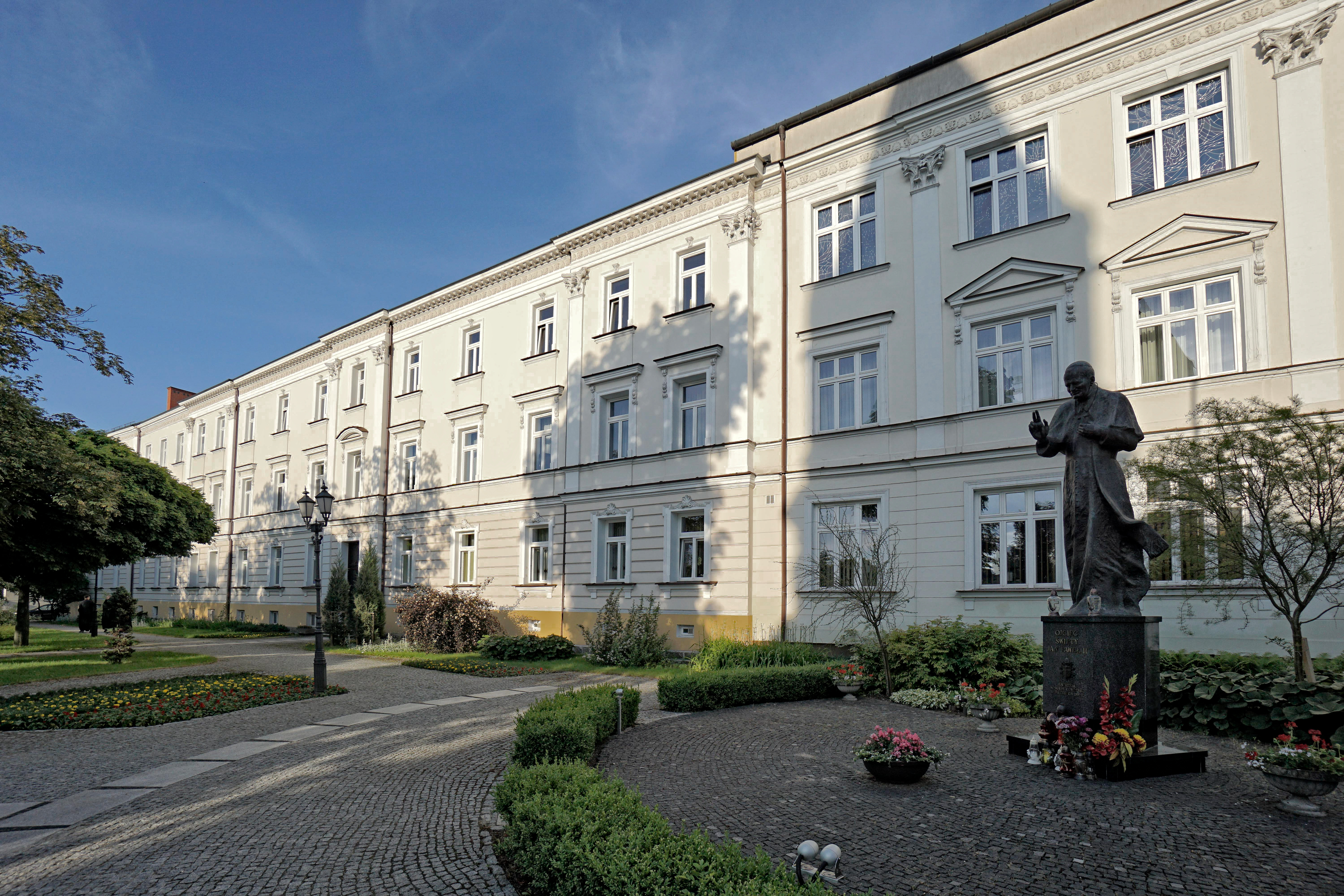 Former Governor's Palace, now Seminary Łomża (Poland) 11.1985.